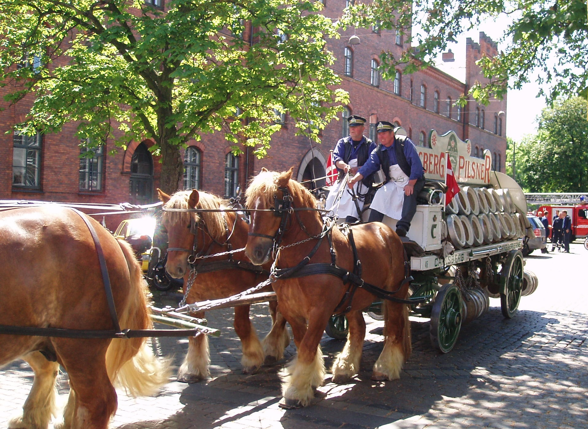 Old Carlsberg beer delivery horse-drawn brewery wagon leaving the yard at Copenhagen Main Fire Station entering Vester Voldgade